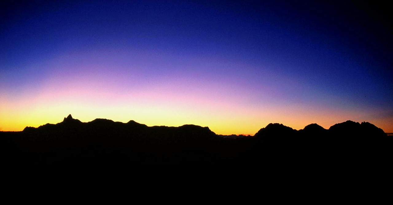 Mount Yari and Mount Hotaka seen from Mount Kasa in Hida Mountains, Japan.